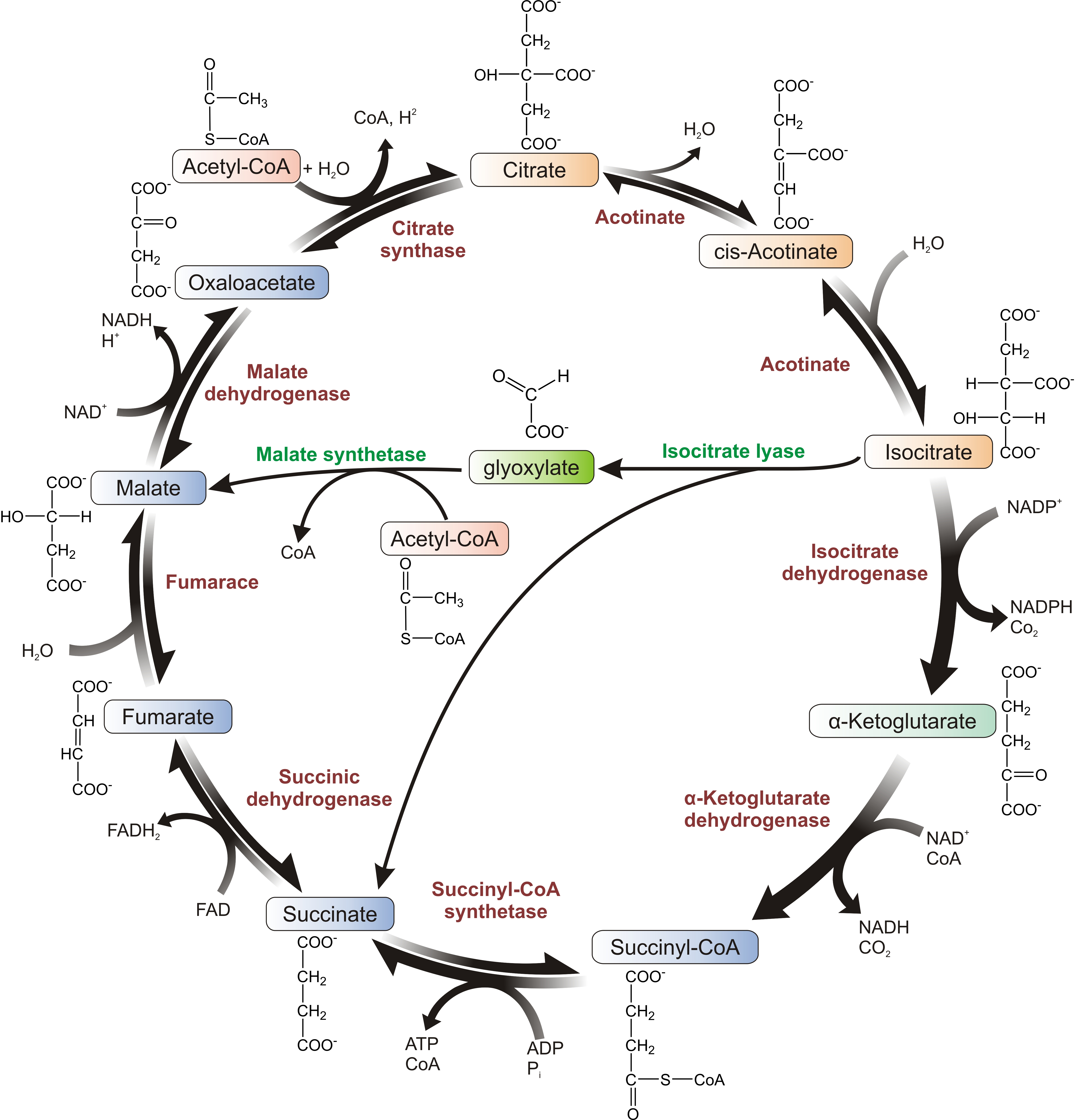 The glyoxylate cycle together with the krebs cycle